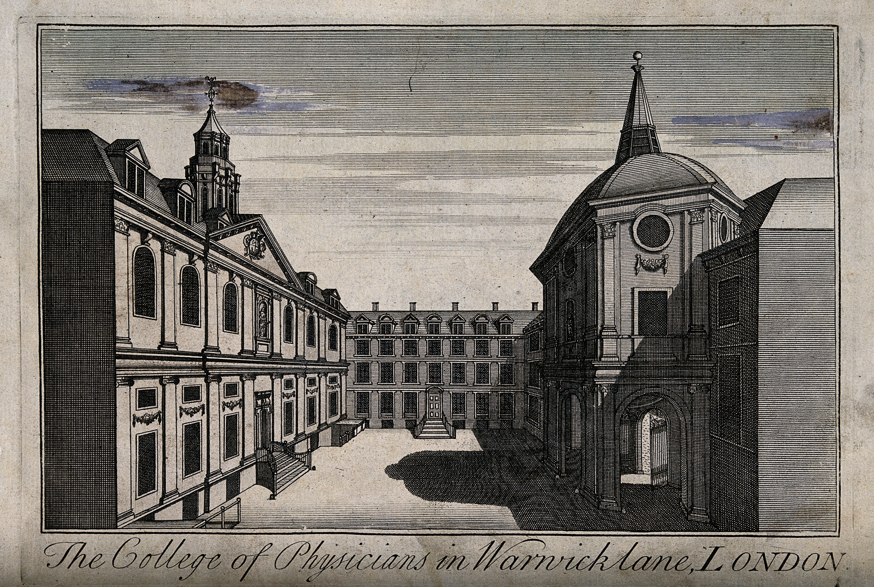 Royal College of Physicians, Warwick Lane, London: the courtyard, viewed from the south. Engraving. Iconographic Collections Keywords: Royal College of Physicians of London